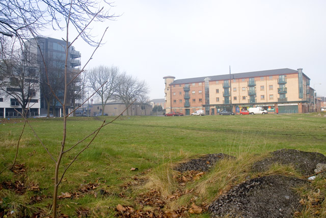 Stretford Road, Hulme Hulme is an urban regeneration area. The flats on the left were put up in 2006, the building centre right houses a Post Office, take away, off-licence, pharmacist, and, round the corner, a doctors surgery. Between this block and the new flats is the Anglican Parish Church of the Ascension. The library is just up Stretford Road. The green space in the foreground acts as an unofficial park. A dark line running across the image is in fact a footpath. For as long as I have lived in Hulme (four and a half years) this has been used frequently as a public footpath and my understanding is that the practice has been going on for many years previously. For all that there is a road called 'Hulme High Street', this is probably the true centre of the community in Hulme.